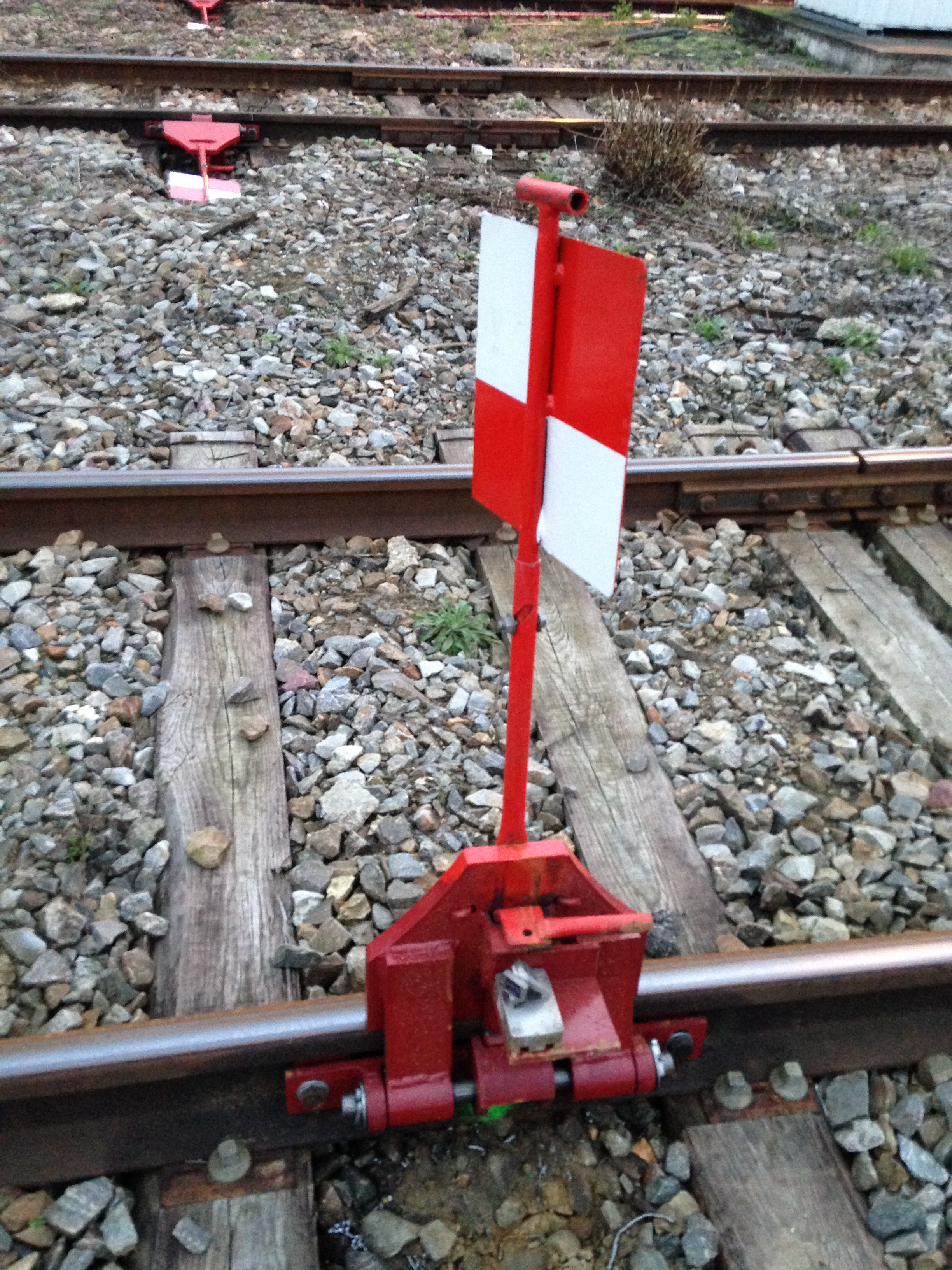 TrainStopper as an effective alternative to derailer to protect people and asset in depot